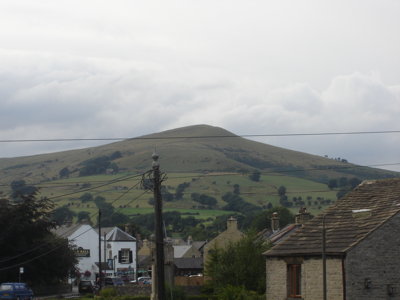 Taken by myself, from our bedroom window